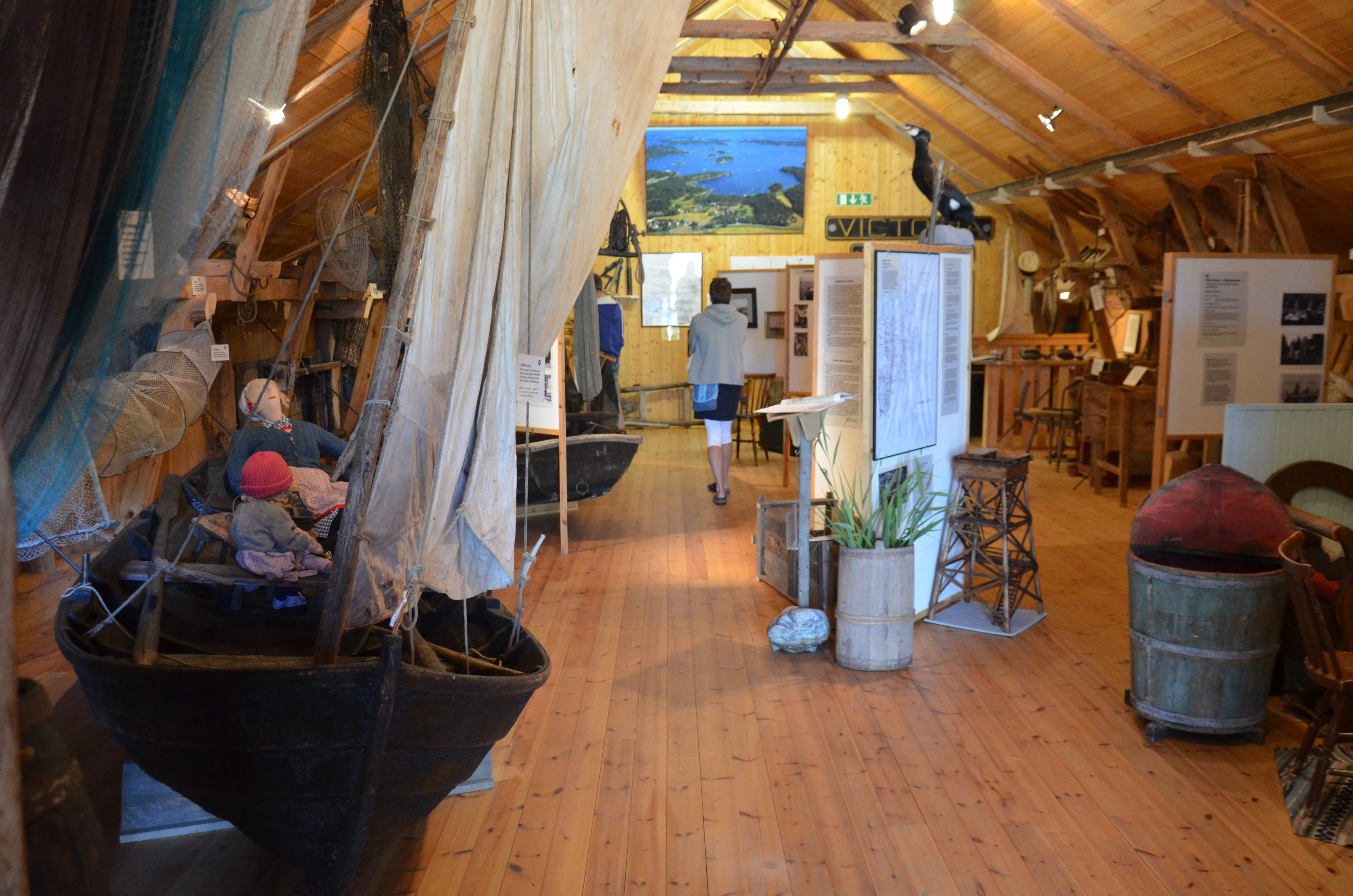 Sankt Anna skärgårdsmuseum interiör